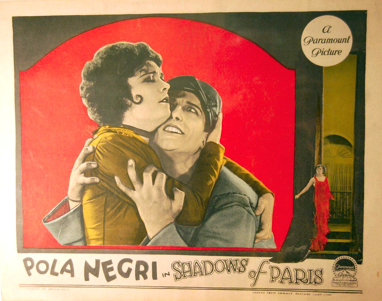 Lobby card for the American drama film Shadows of Paris (1924) with Pola Negri and Charles de Rochefort. There are no copyright marks on the card. At lower left is Country of origin USA. At lower right is Leased from Famous Players Lasky Corp.